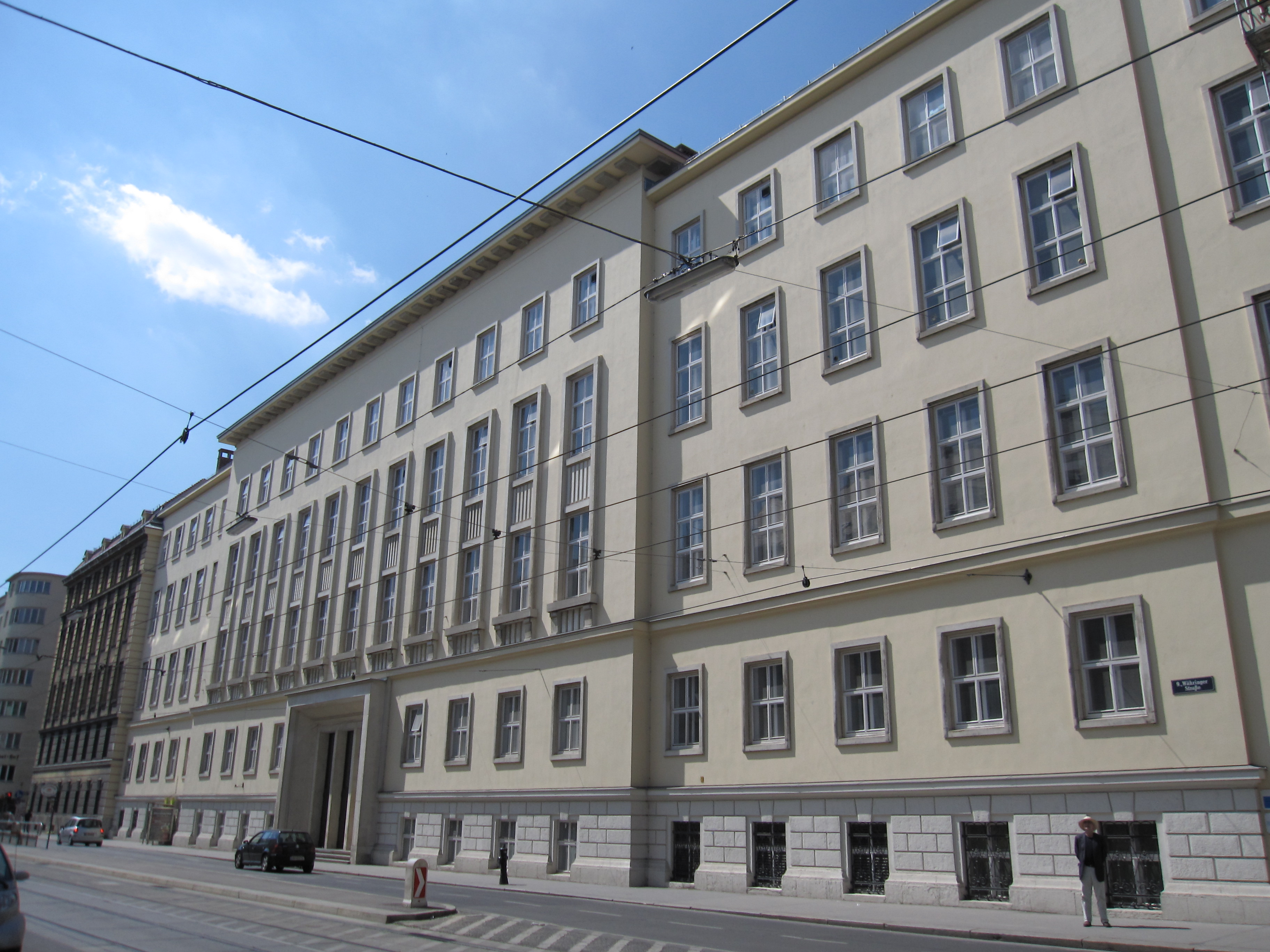 Medical University of Vienna at Währinger Straße